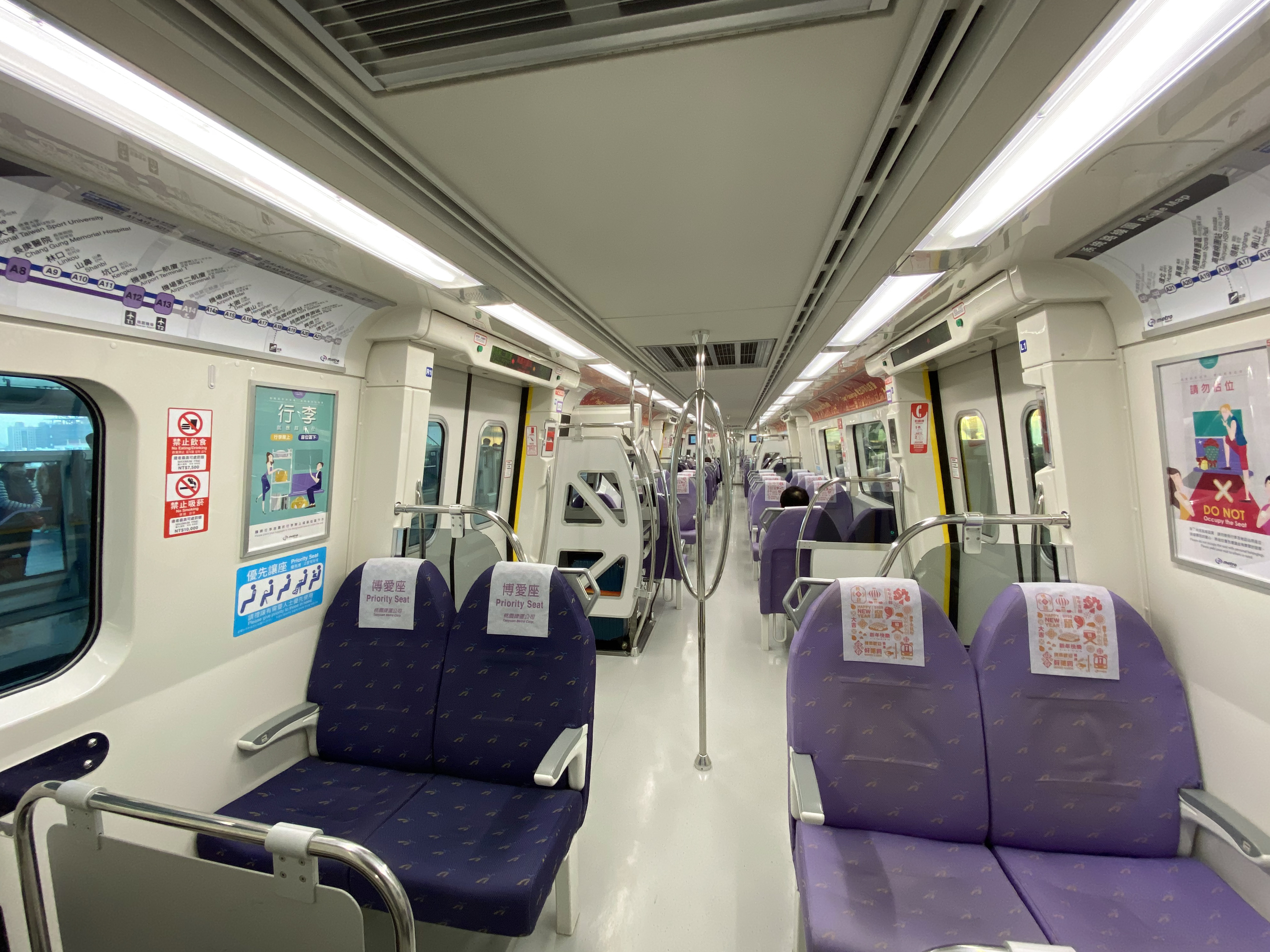 Taoyuan Metro Express Train interiors